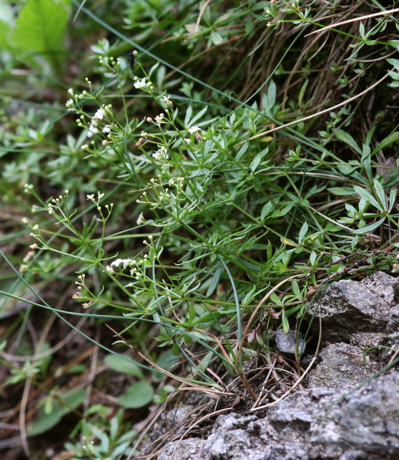 Flowering Galium sudeticum in Obří důl Valley, Krkonoše Mountains, Czech Republic.